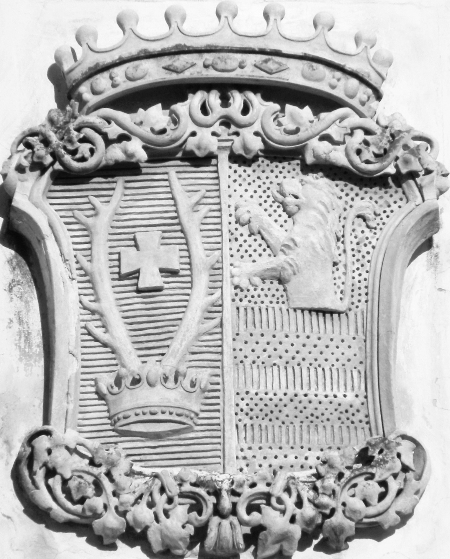 Coat of arms of Emanuel Zichy - Ferraris. Mansion house, Rusovce, Bratislava. Facade of northern wing.